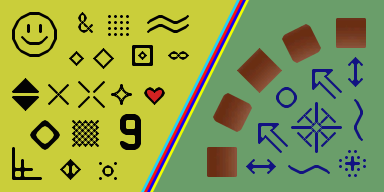 Hq3x-scaled image